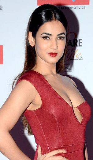 Sonal Chauhan snapped at ‘Filmfare Glamour & Style Awards 2016’ on 15 October 2016